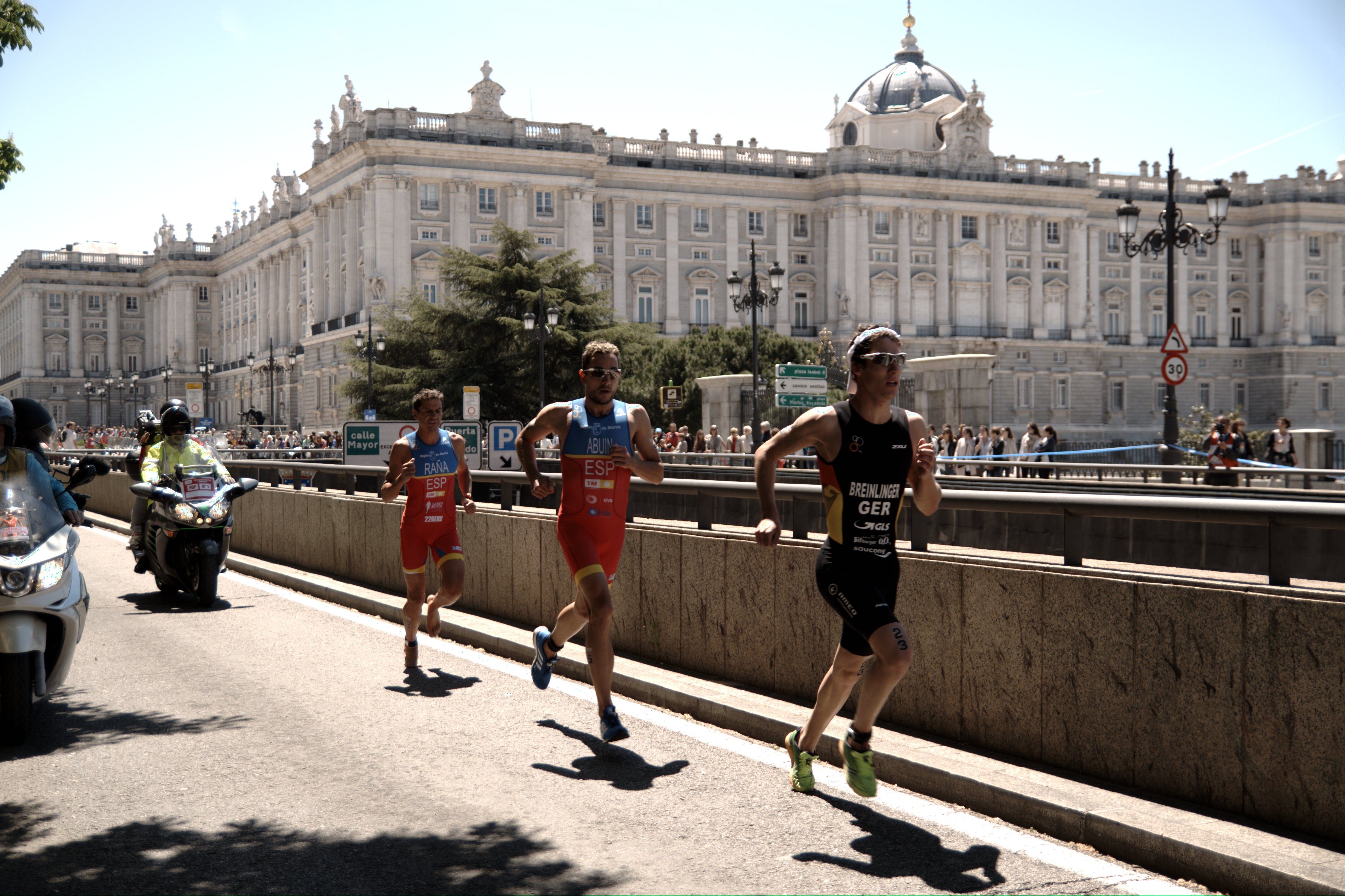 Jonas Breinlinger, Uxío Abuín Ares and Iván Raña at 2016 Madrid ETU Triathlon European Cup